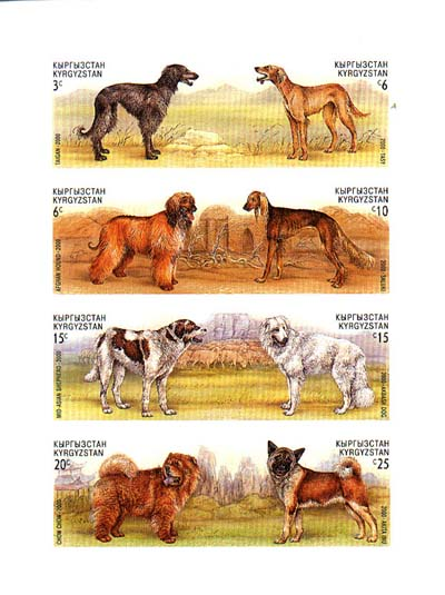 Stamp of Kyrgyzstan. The Asia bred of dogs Taigan, Afgan hound, Tassy, Saluki, Mid-Asian shepherd, Akbash, Chow-chow, Akita